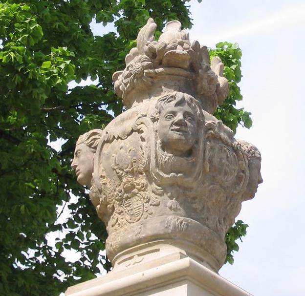 Sculpture at gate to manor house in Fredersdorf, built in 1719 by Ludwig von Oppen. Art conversation and restoration in 2006. Fredersdorf is a village (part) of the town Belzig in Brandenburg, Germany.